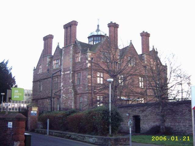 Whitehall Mansion. The historic Whitehall Mansion on Monkmoor Road in Shrewsbury. Now converted into luxury apartments.